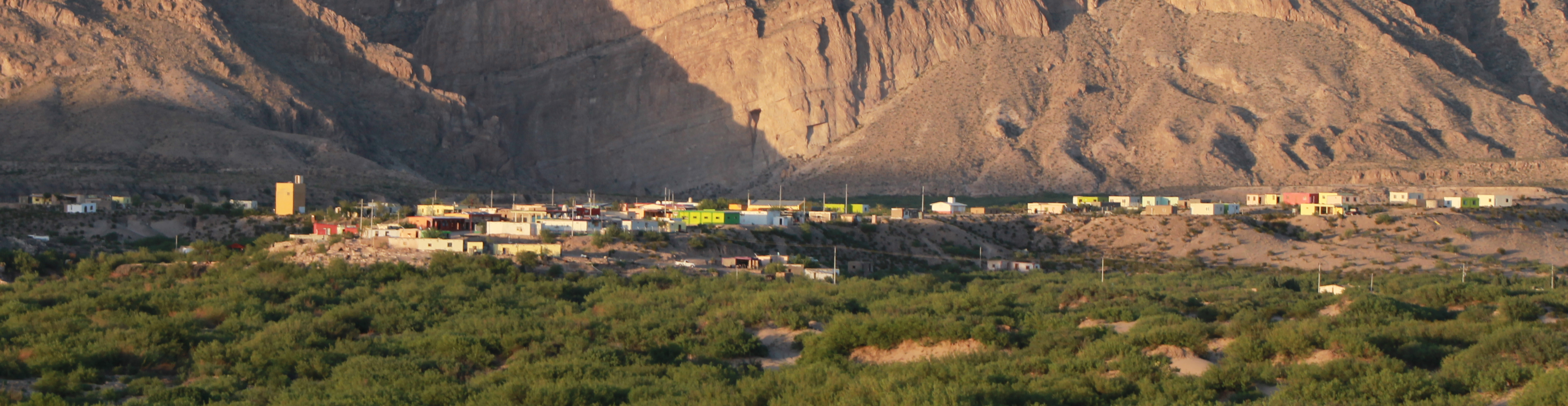 View of Boquillas del Carmen, Coahuila, Mexico from Rio Grande Village, Big Bend National Park, Texas